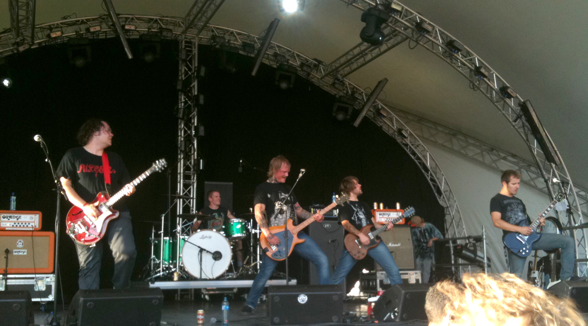 Kvelertak performing at Øyafestivalen in Oslo, Norway on August 14, 2009.